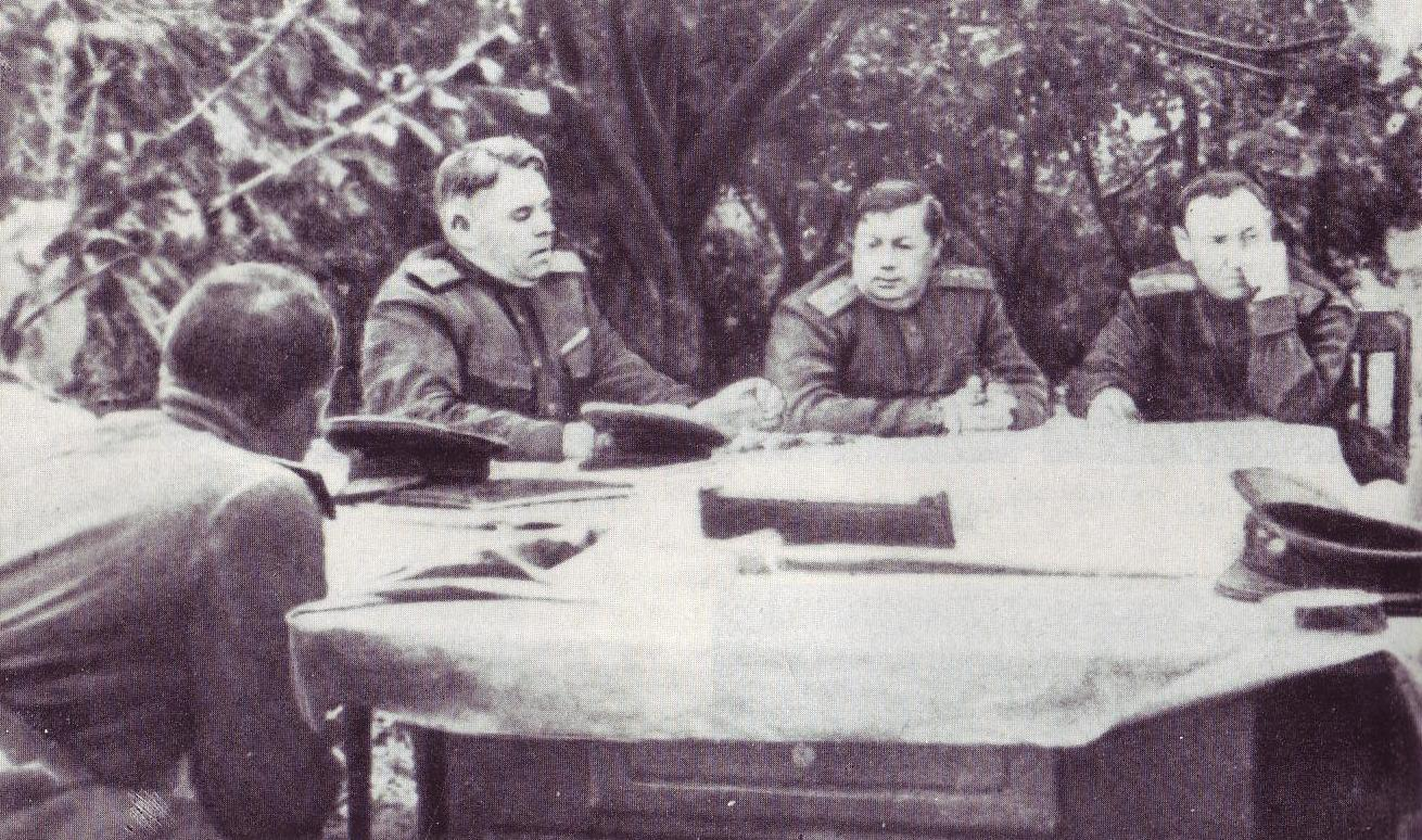 Meeting of Marshal of the Soviet Union Vassilevsky with General Colonel Tolbuchin, commander of the Red Armys Southern Front, and General Birjusov, his Chief of Staff before their offensive in the Donbass Region in 1943.